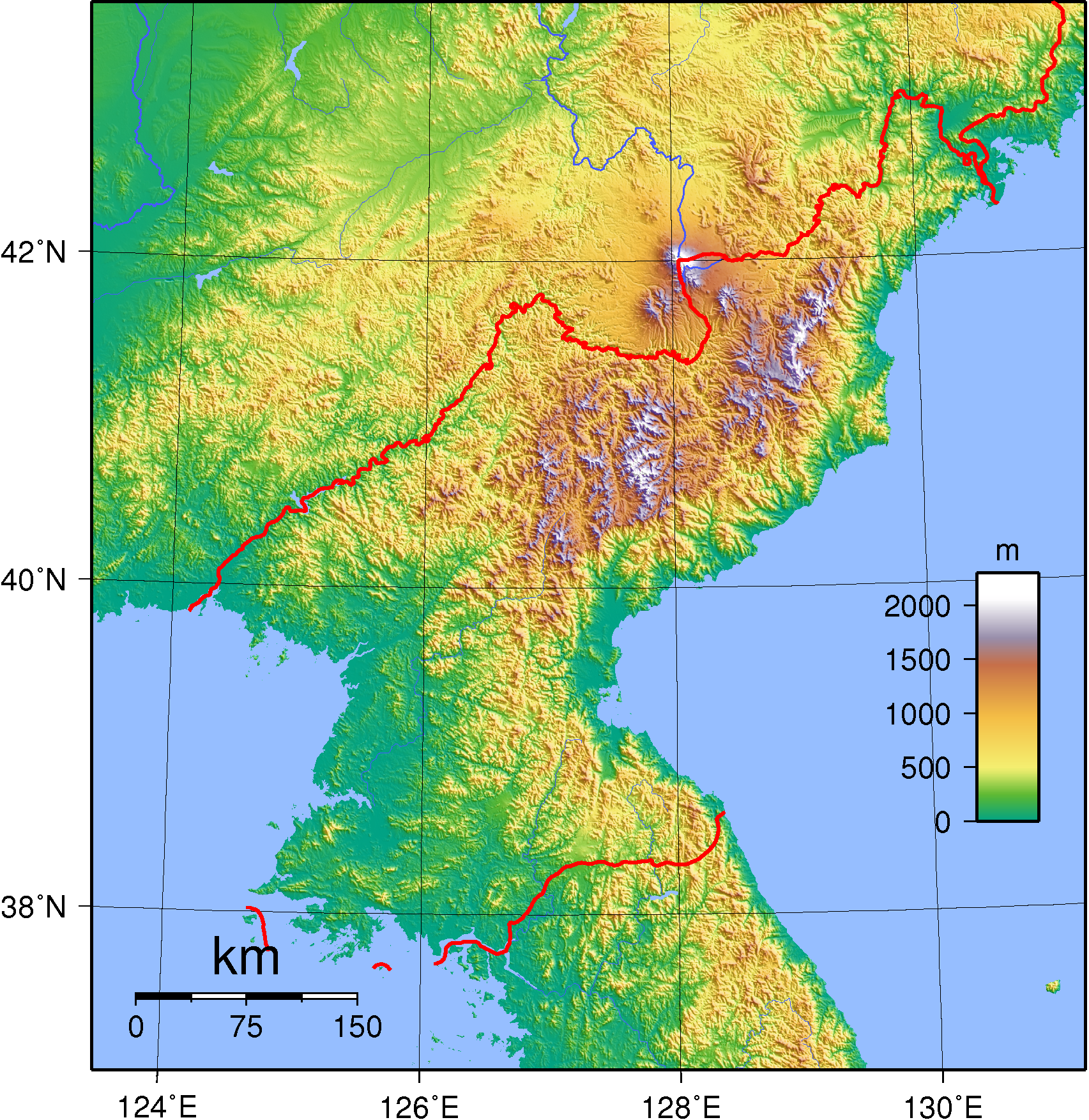 Topographic map of the territory claimed by North Korea. Created with GMT from SRTM data.